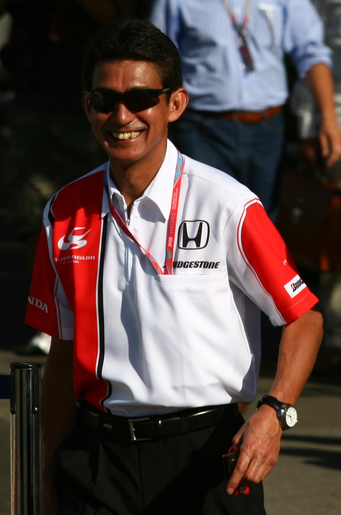 Aguri Suzuki at the 2008 Australian Grand Prix.